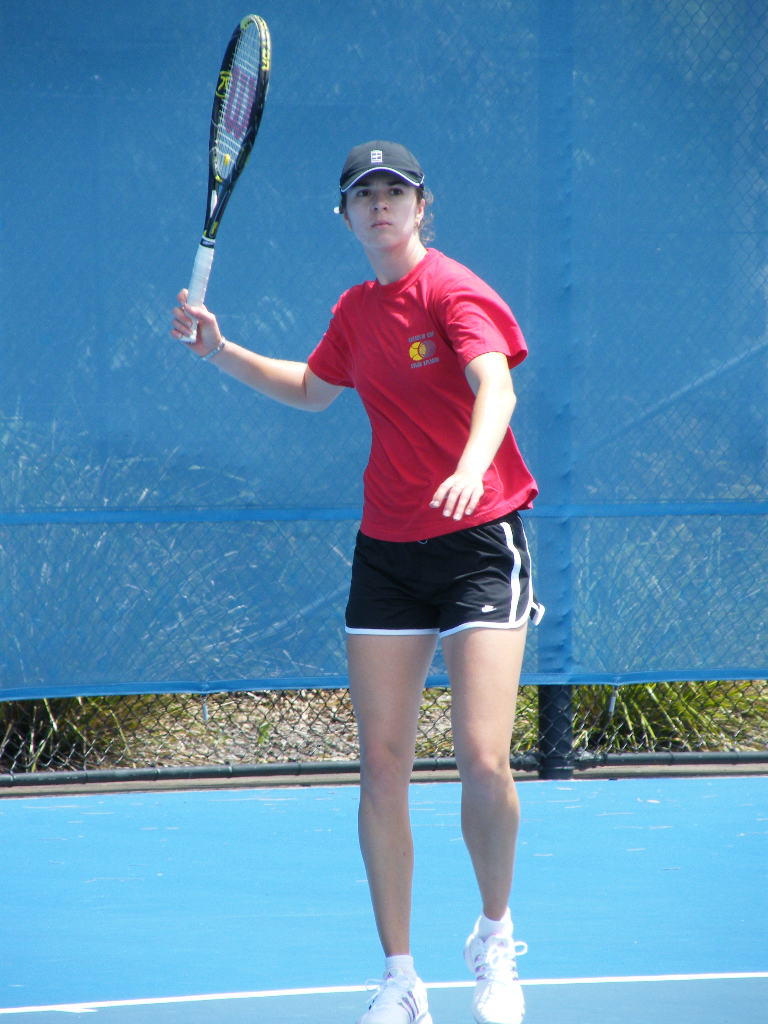 Galina Voskoboeva of Kazakhstan - NSW Tennis Open, January 2009.